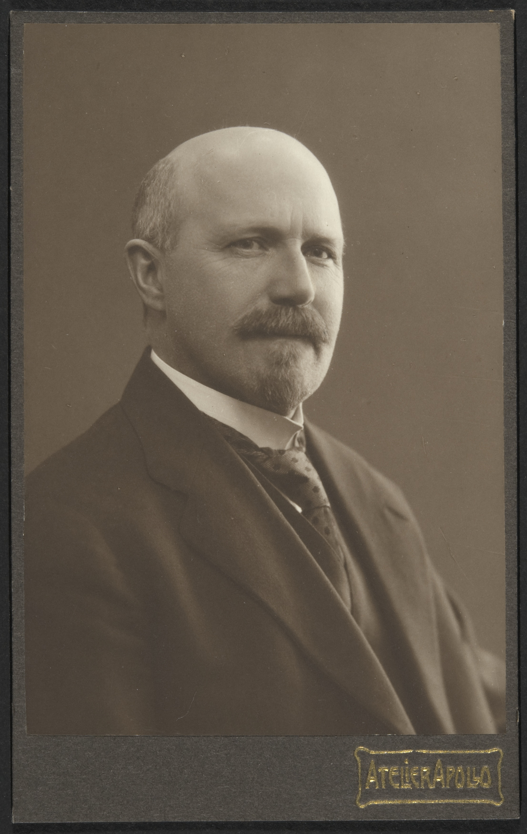 Photograph of the Finnish linguist and professor Uno Lindelöf (1868–1944).